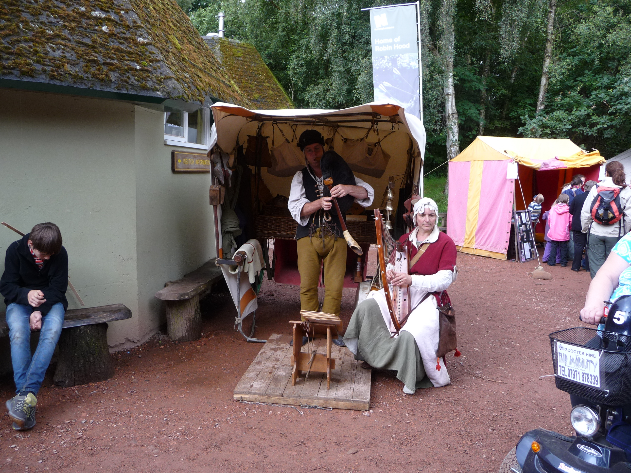 Robin Hood Festival